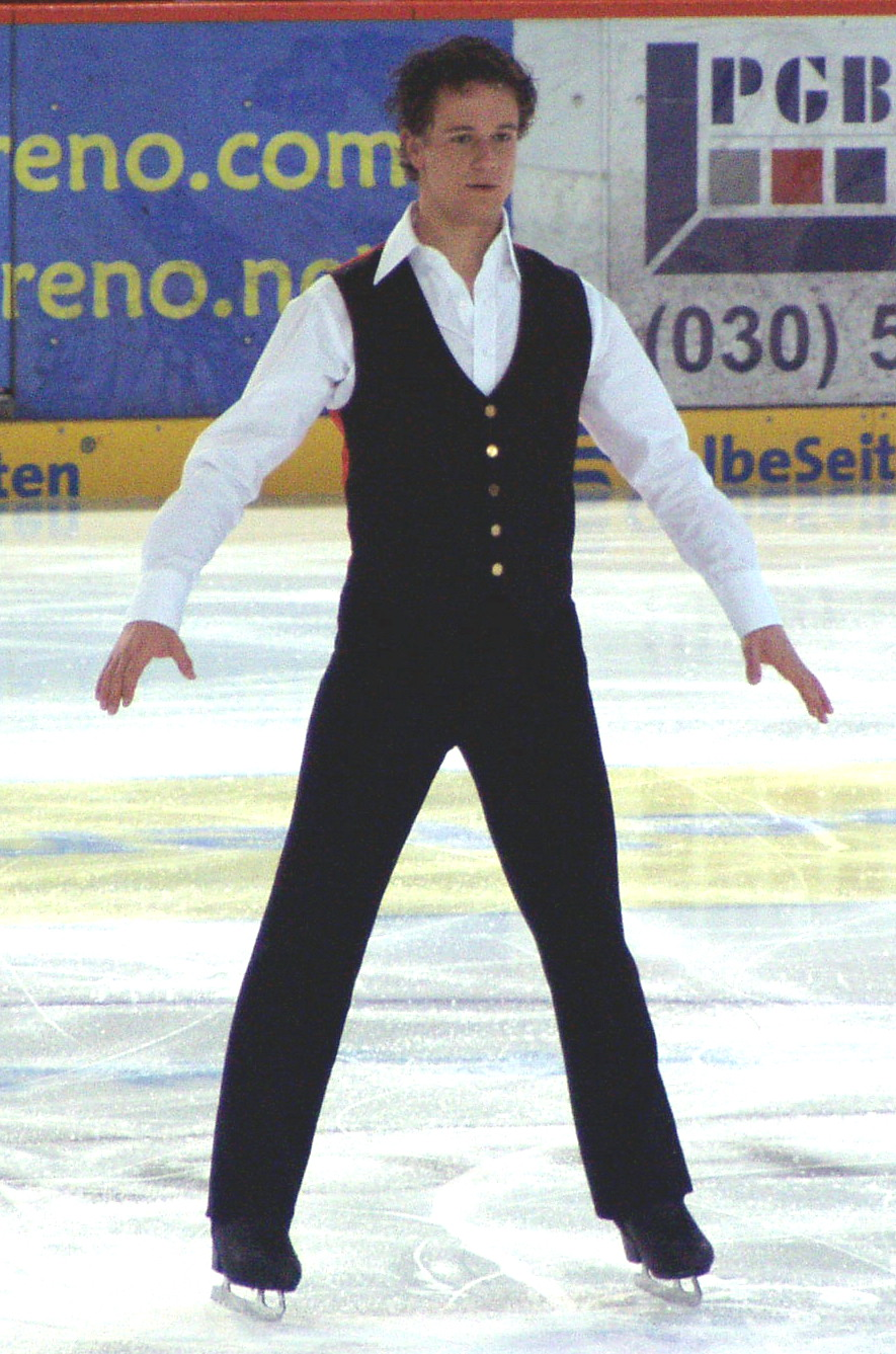 Martin Liebers at the beginning of his free program at the German championships 2006 in Berlin